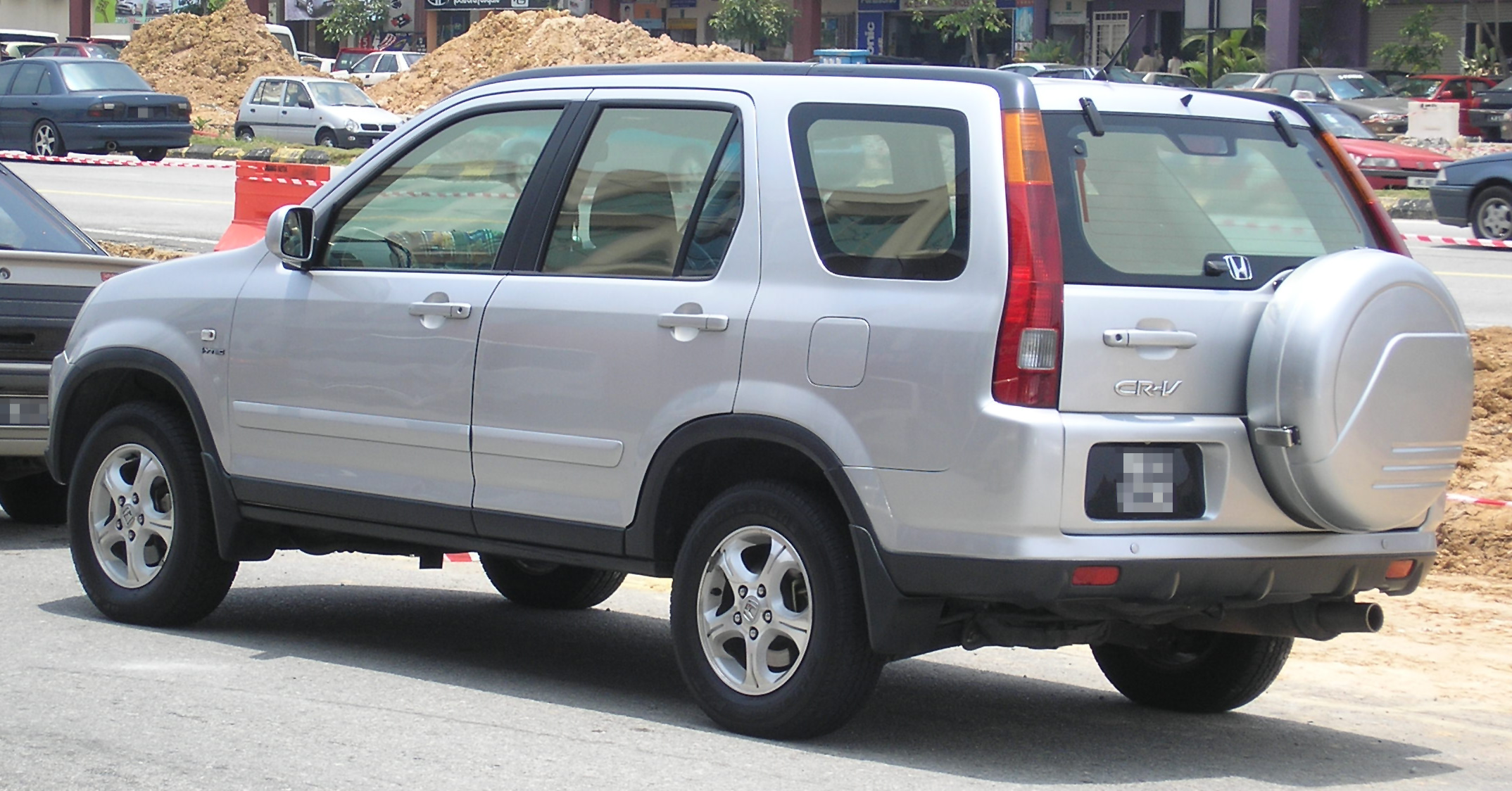 Rear-side shot of a second generation Honda CR-V, in Serdang, Selangor, Malaysia.